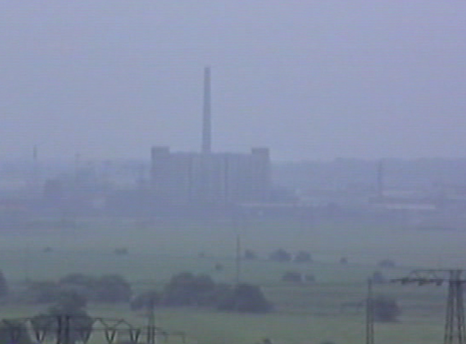 In hazy atmosphere, an elevator appears in front of a chimney belonging to the chlorine production facilities elevator in Greppin near Bitterfeld, then German Democratic Republic.